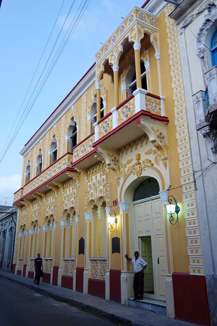 Colegio de Abogados — in Santiago de Cuba, Cuba.